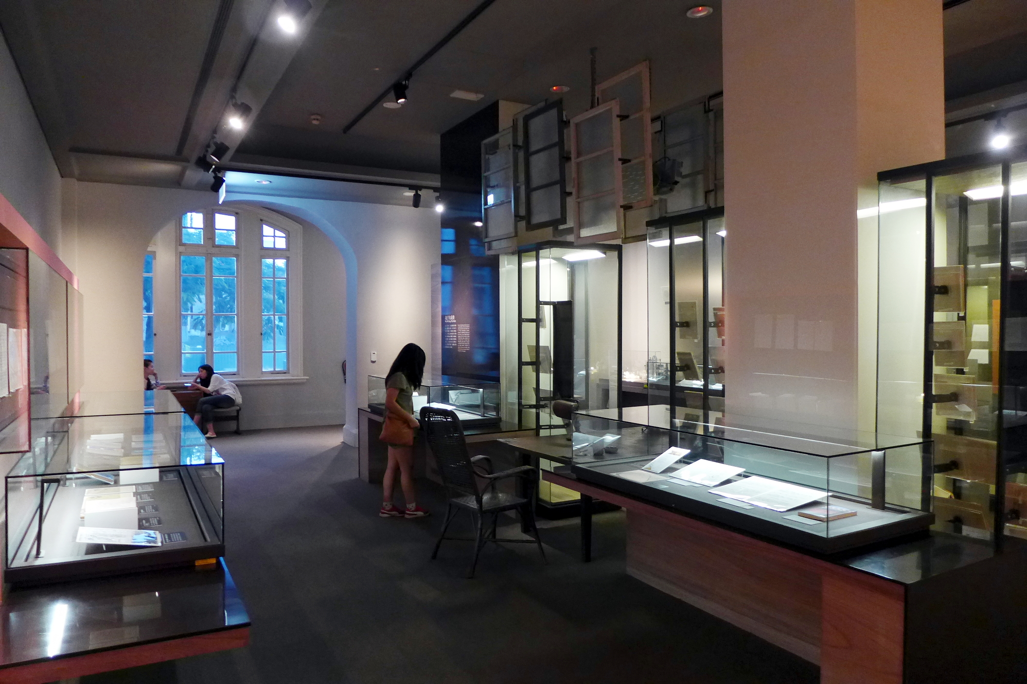 National Museum of Taiwan Literature Gallery A